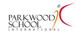 Parkwood School International's logo.